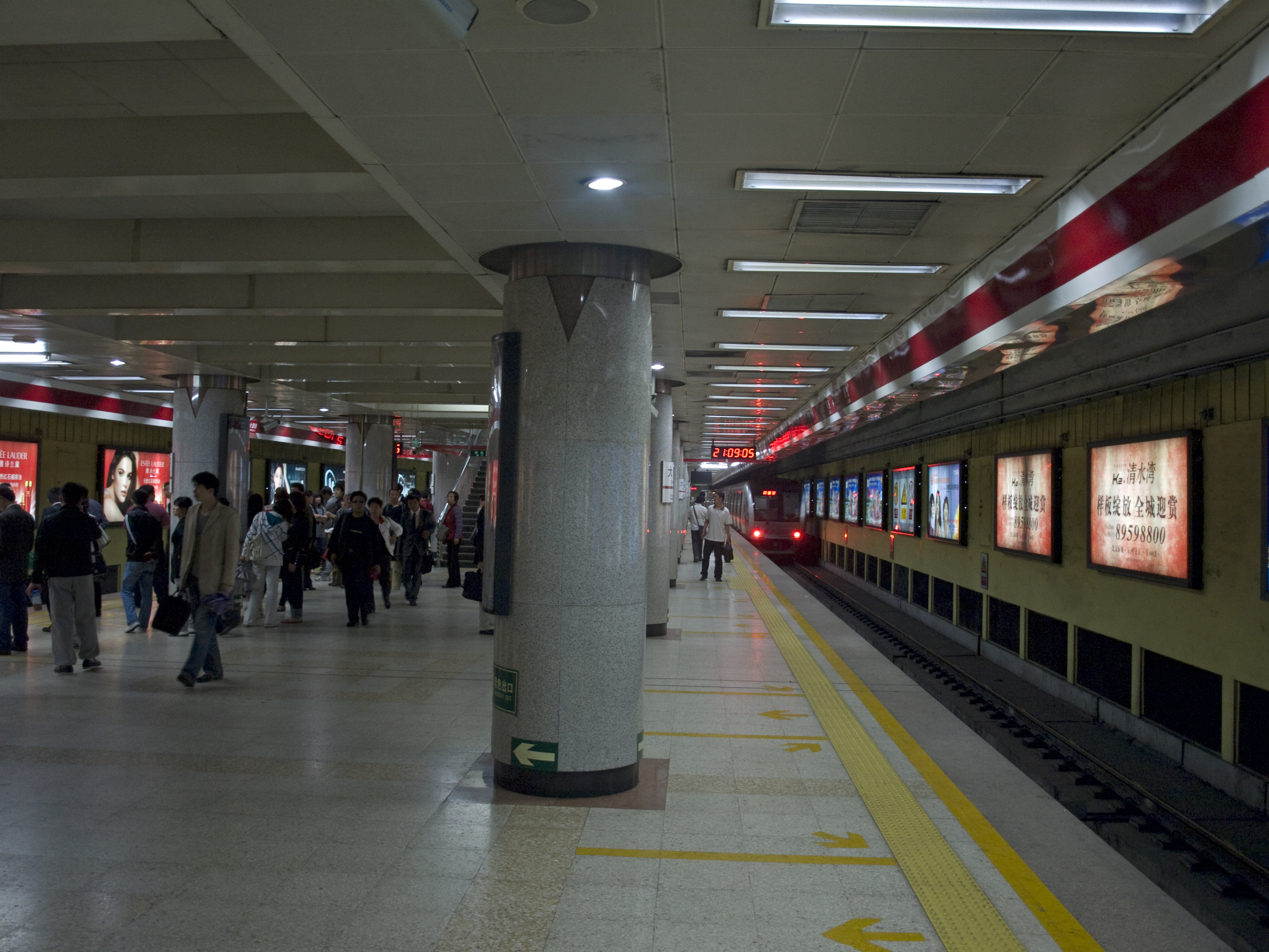 Dawanglu station, Beijing Subway